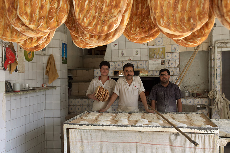 Three bakers behind wads of dough laid out on a tray and finished products hanging in the foreground.